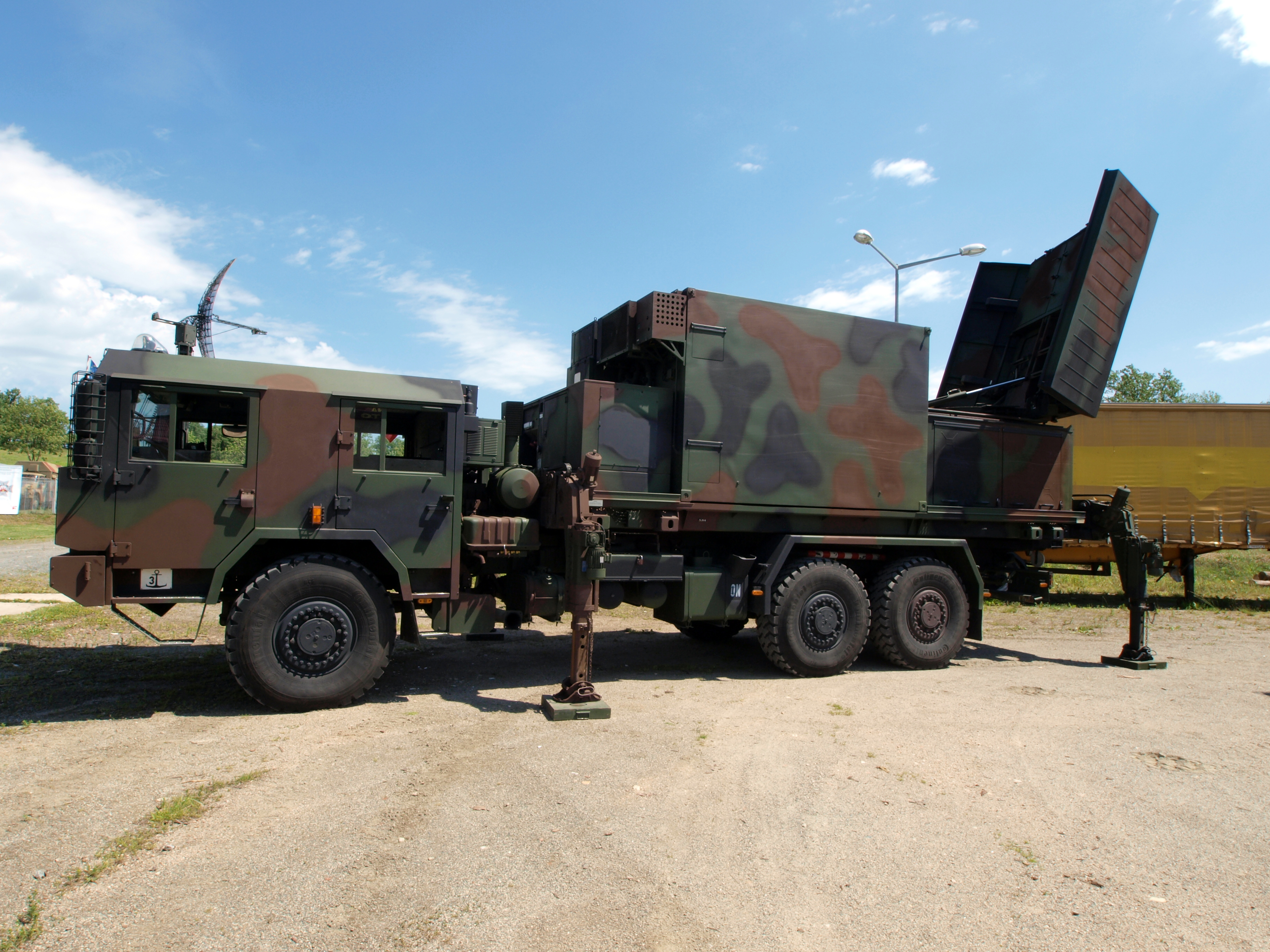 Polish WLR 100 Liwiec artillery hunting radar based on the Jelcz P662D.35